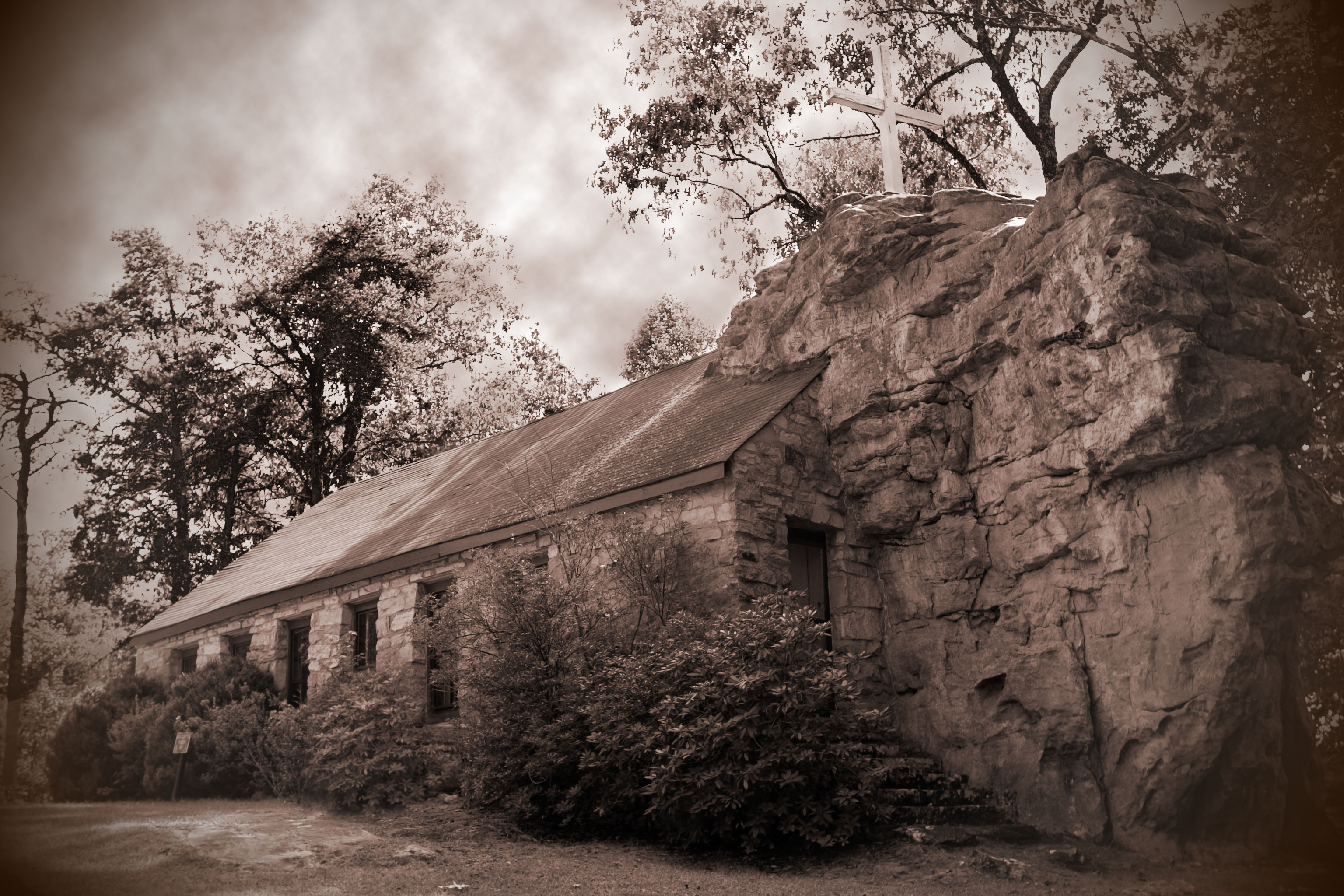 This is the Sallie Howard Memorial Church in Mentone, Ala. It was built in 1937 by Mrs. Howard's husband. The gigantic boulder serves as the church's pulpit and Mr. Howard's ashes are interned inside of it. (Think back to Sunday school, "on this rock I will build my church" Mathew16:18-19)